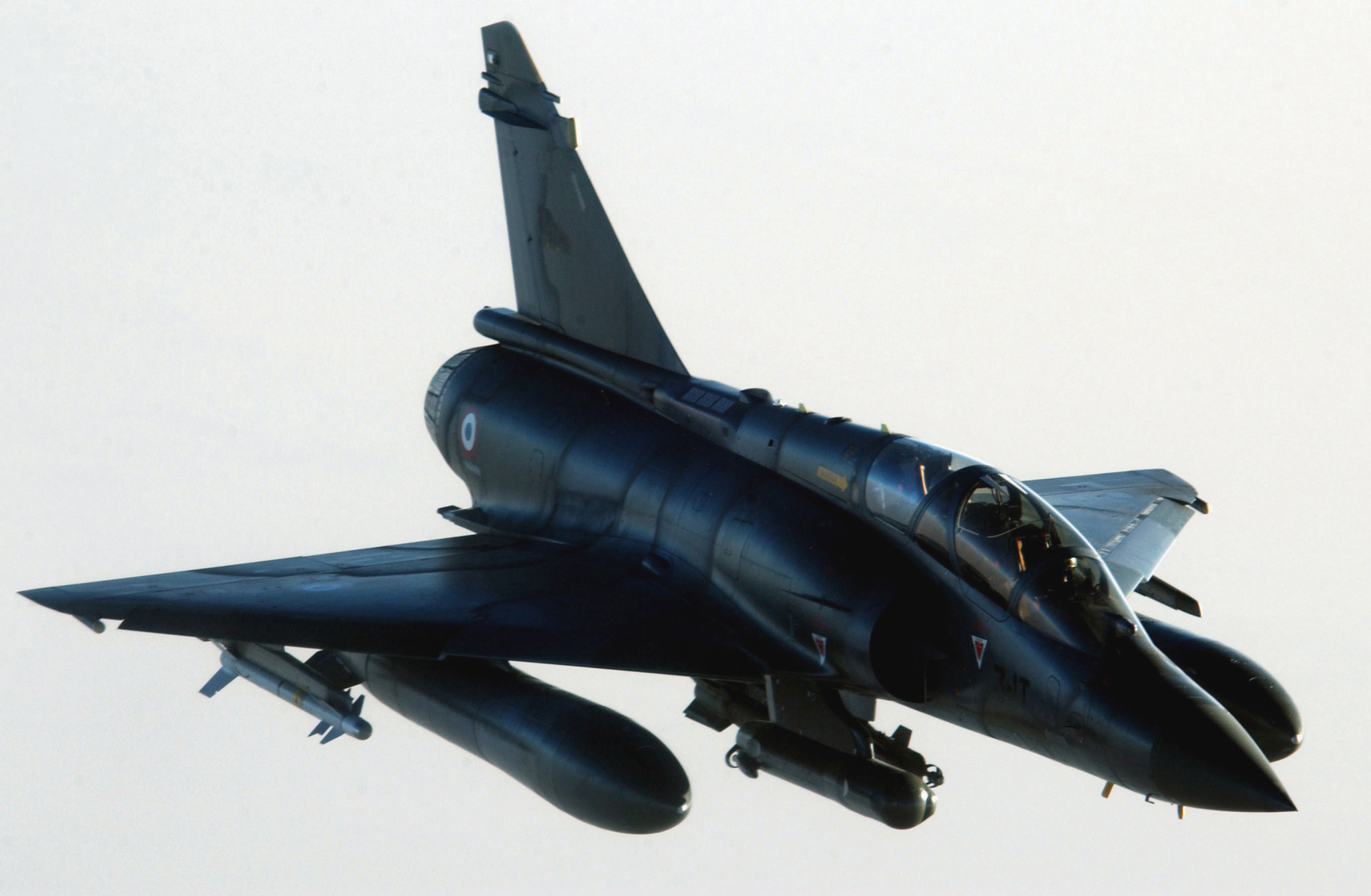 A French Air Force Mirage 2000 aircraft in flight during a mission over Afghanistan in support of Operation Enduring Freedom.